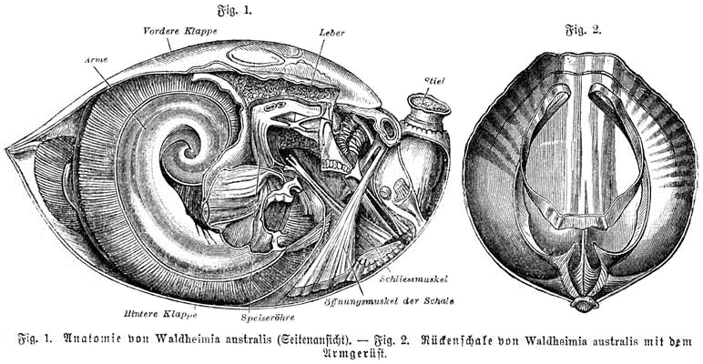 Meyers Lexikon — Vol. 3 — Page 297 — Fig. 1 & 2: Brachiopoda: Waldheimia australis